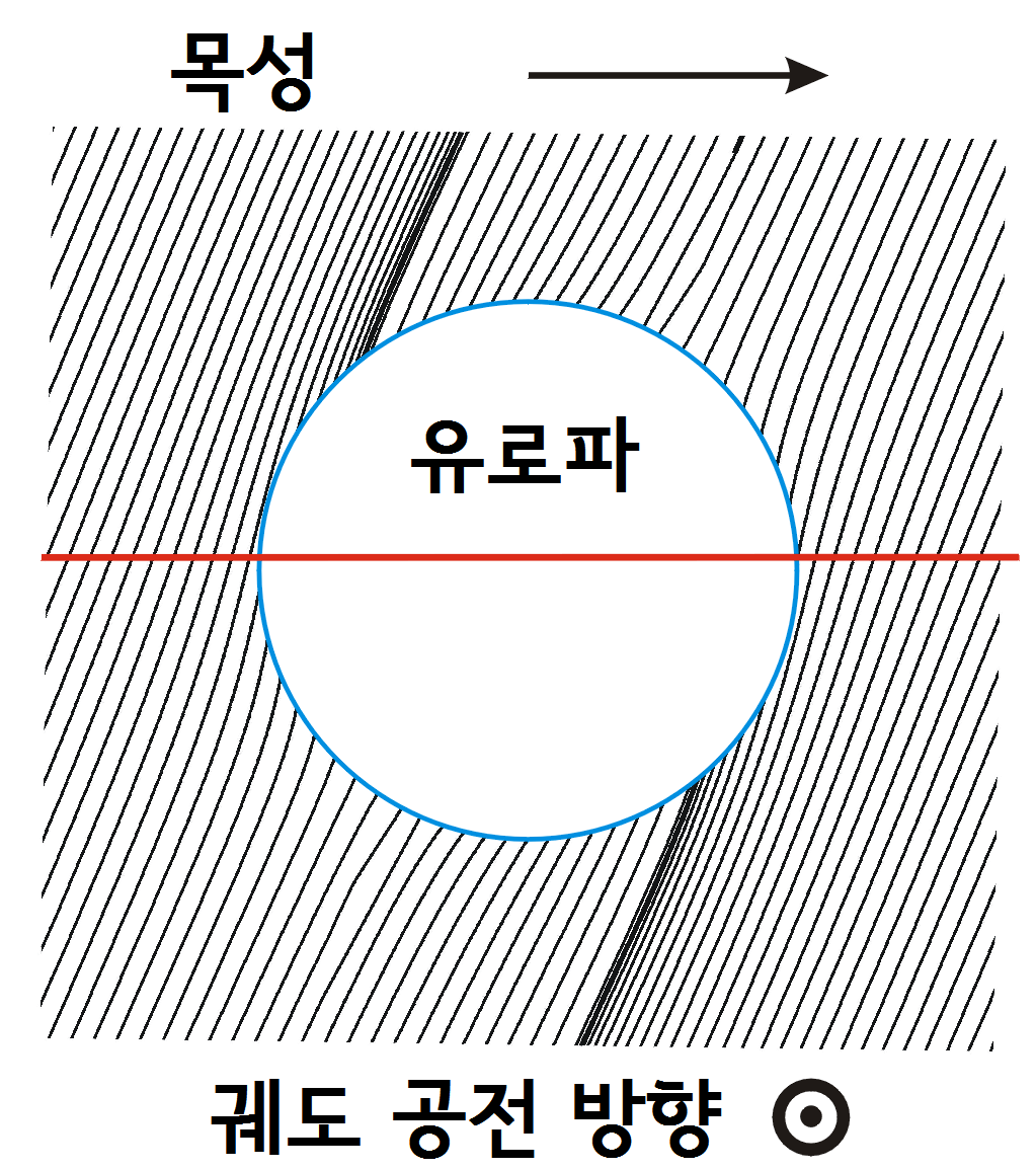 Korean version of file Europa field.png.